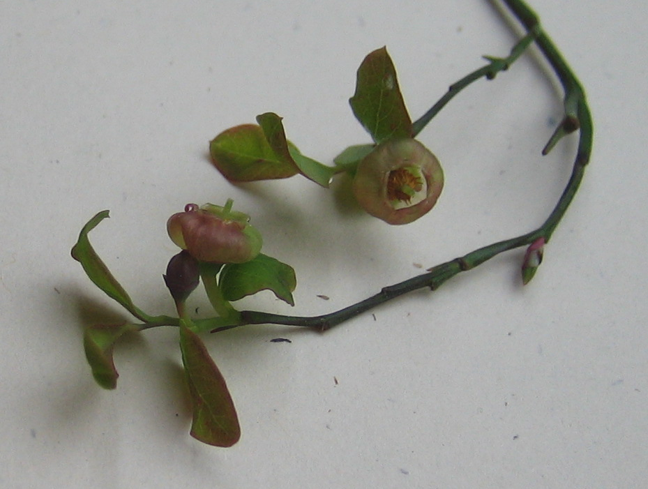 Red Huckleberry Blossom. Blossoms.